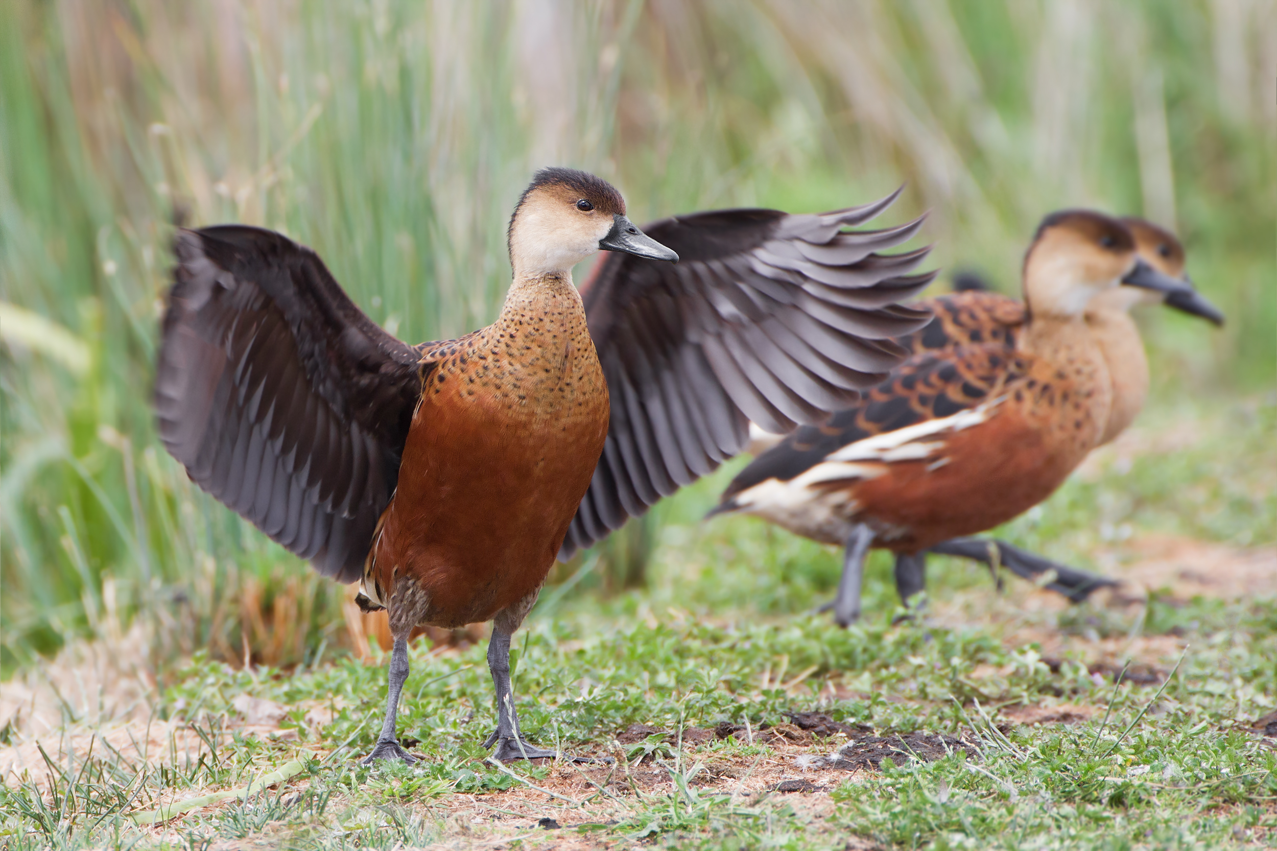 Wandering Whistling Duck (Dendrocygna arcuata), Oatlands, Tasmania, Australia